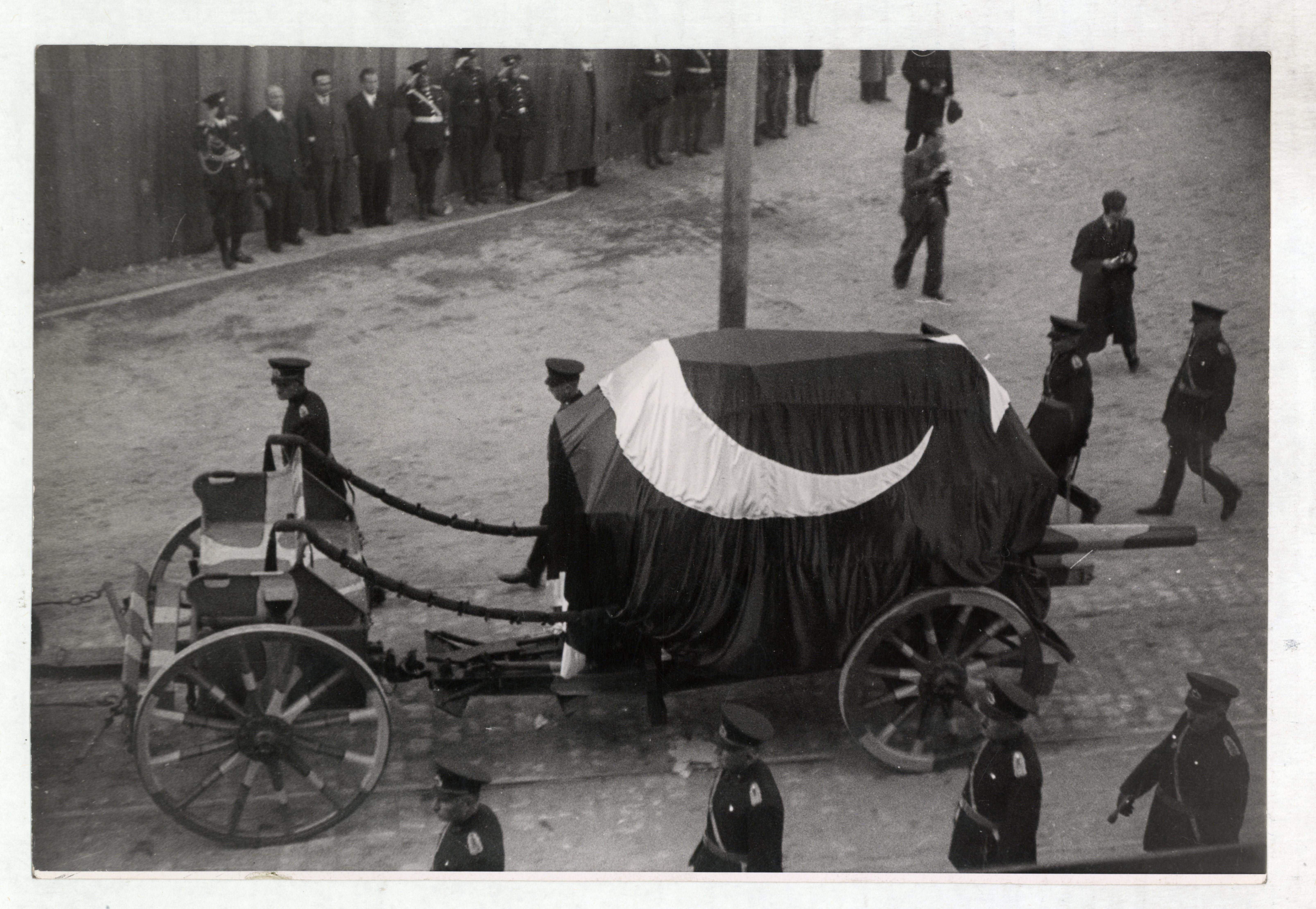 Atatürk’ün naaşı 19 Kasım 1938 sabahı Dolmabahçe’den törenle alınarak Kabataş, Tophane, Karaköy ve Gülhane Parkı yolu üzerinden Sarayburnu’na nakledildi. Yavuz Zırhlısı ile İzmit’e gönderildi, oradan da aynı günün akşamı Ankara’ya uğurlandı. SALT Araştırma, Ali Saim Ülgen Arşivi